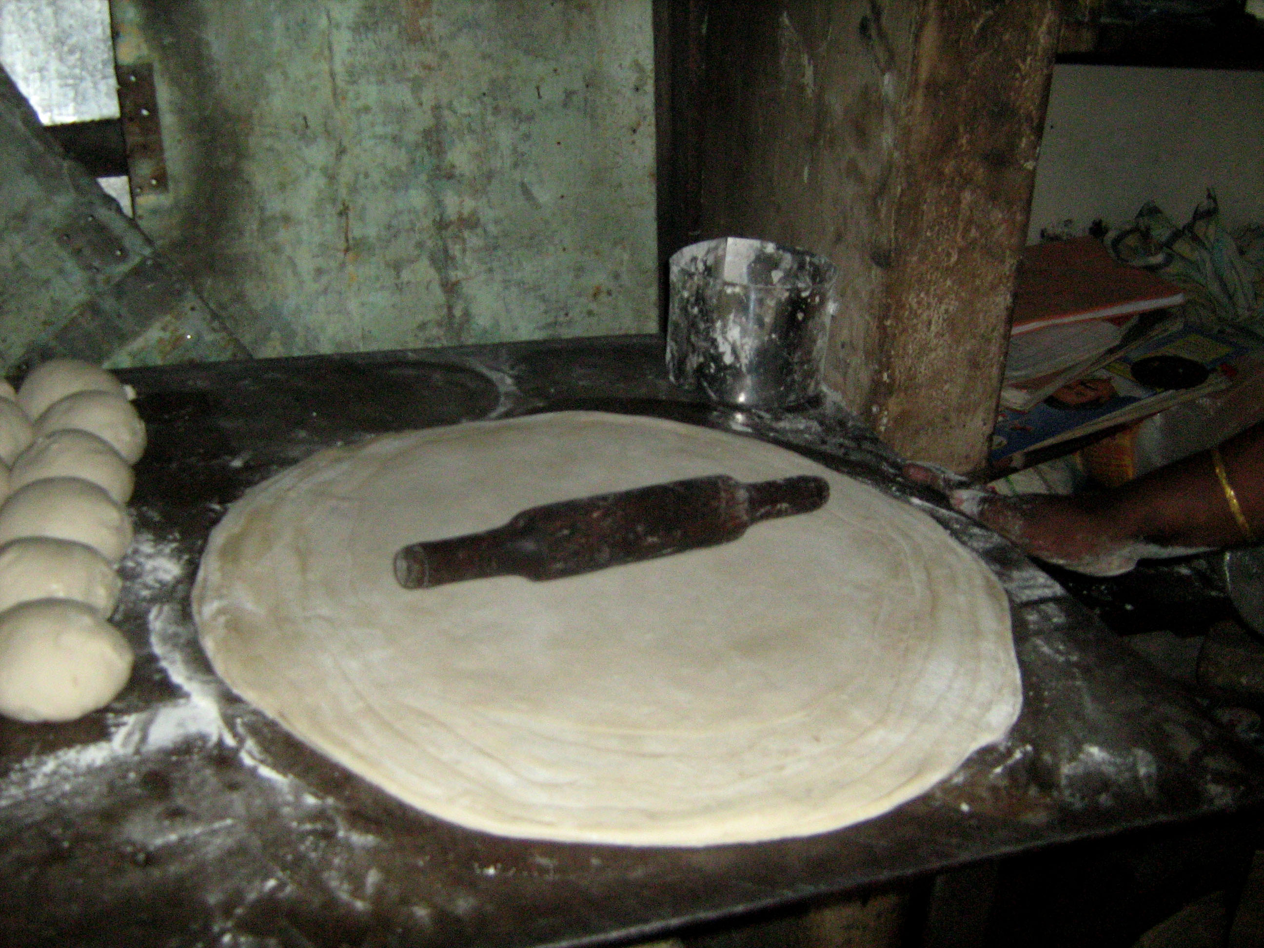 SAMOSA making 5 , preparing to cook, big flatting the breads, Tamil Nadu